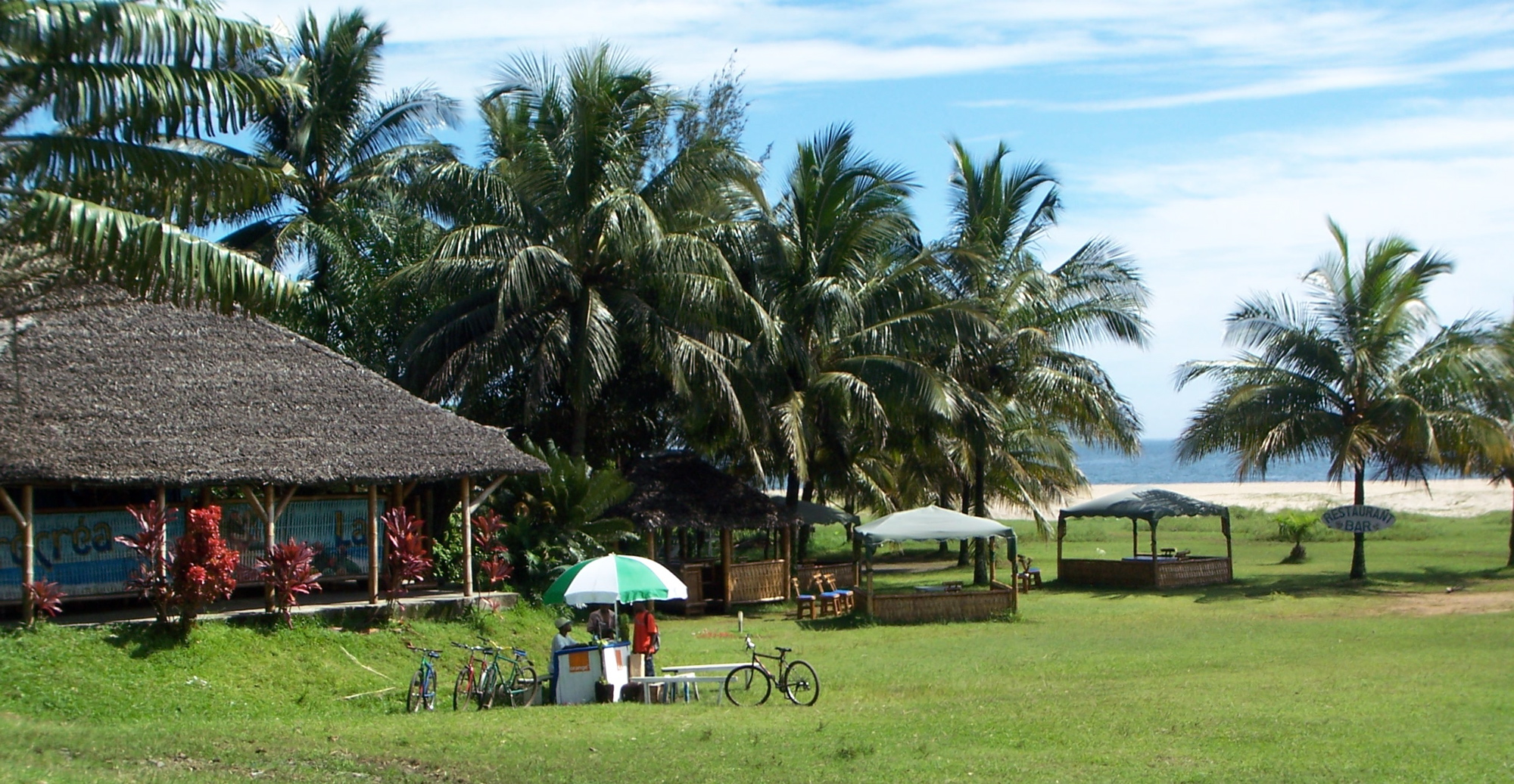 Toamasina (also known as Tamatave). Madagascar